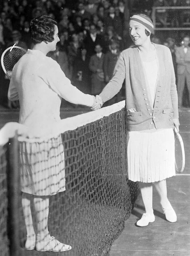 Suzanne Langlen (1899-1938) (right) shaking hands with Mary Browne (1891-1971) (left)